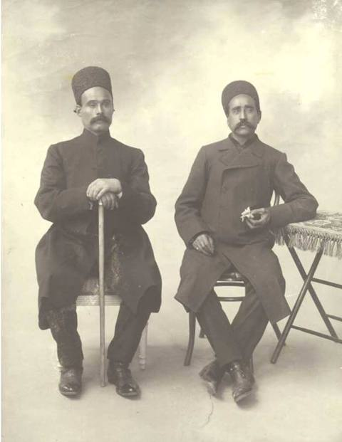 Sattar khan (1860s-1914) and Bagir khan (1862-1916).